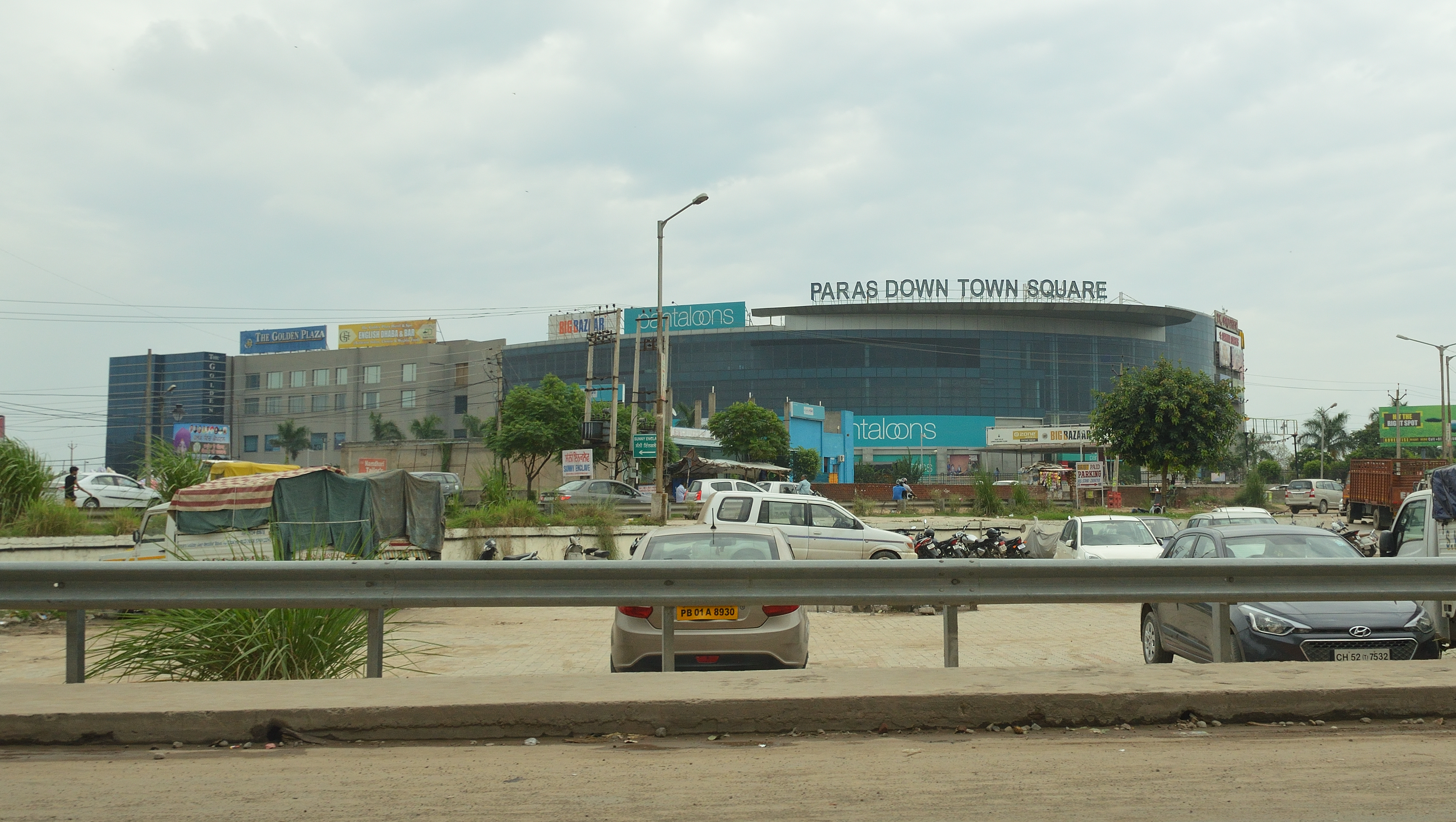 This photograph was taken at Mohali, Punjab.